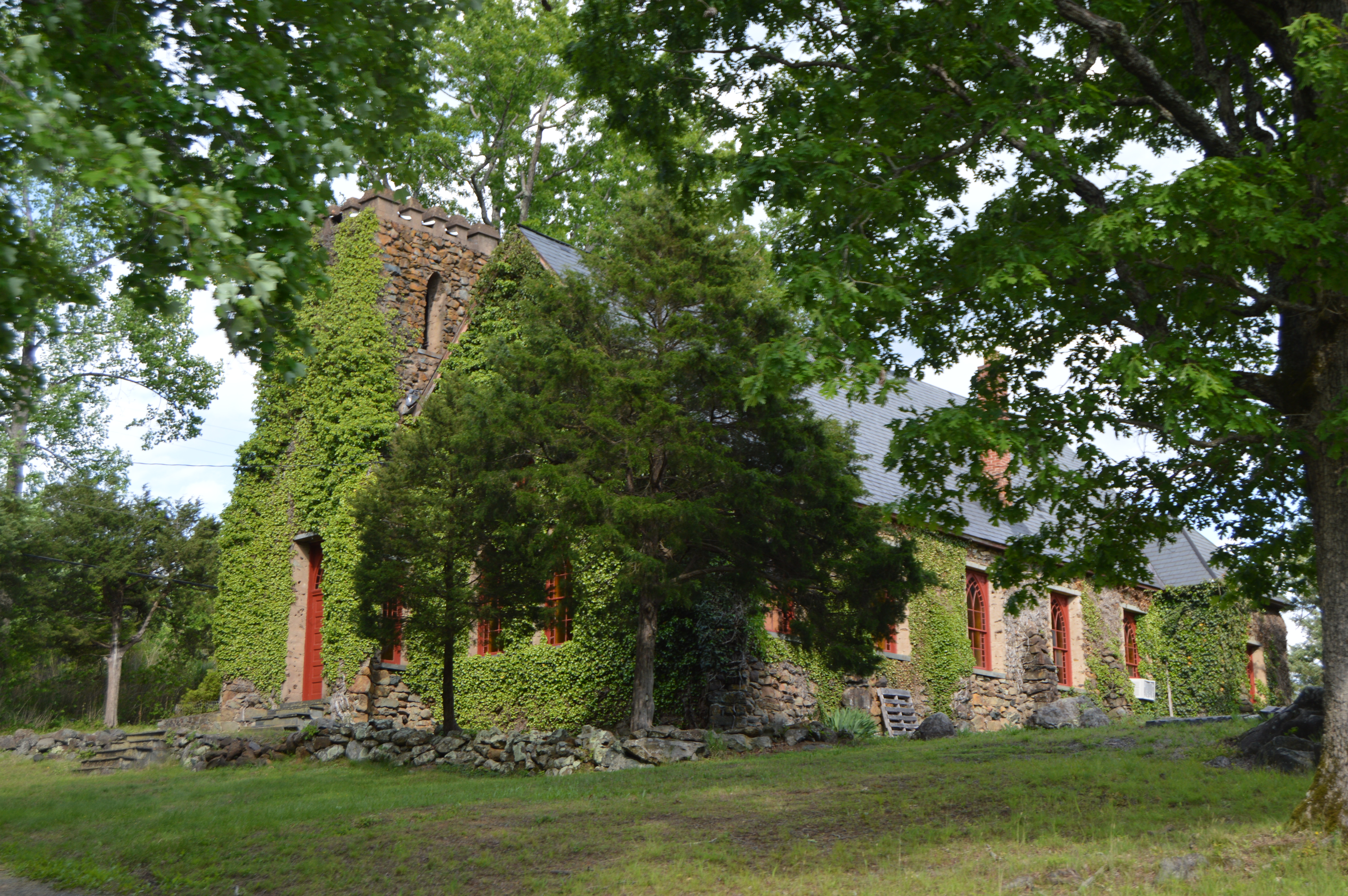 Front and southern side of the former Christ Episcopal Church, located on Rockfish River Road at Schuyler in Nelson County, Virginia, United States. Built in 1920, it is part of the Schuyler Historic District, a historic district that is listed on the National Register of Historic Places.